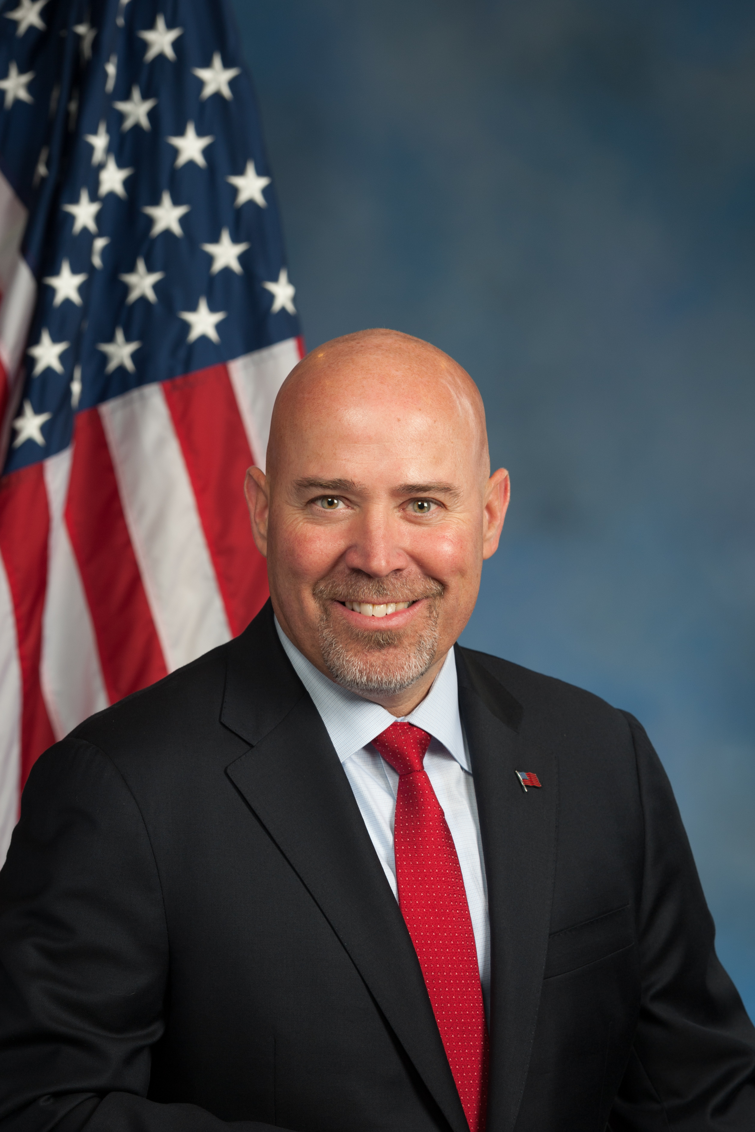 Tom MacArthur official photo, 114th Congress